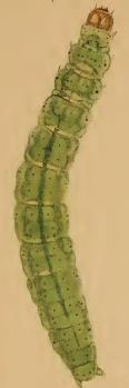 Stainton’s Natural History of the Tineina (1855–1873): Depressaria emeritella